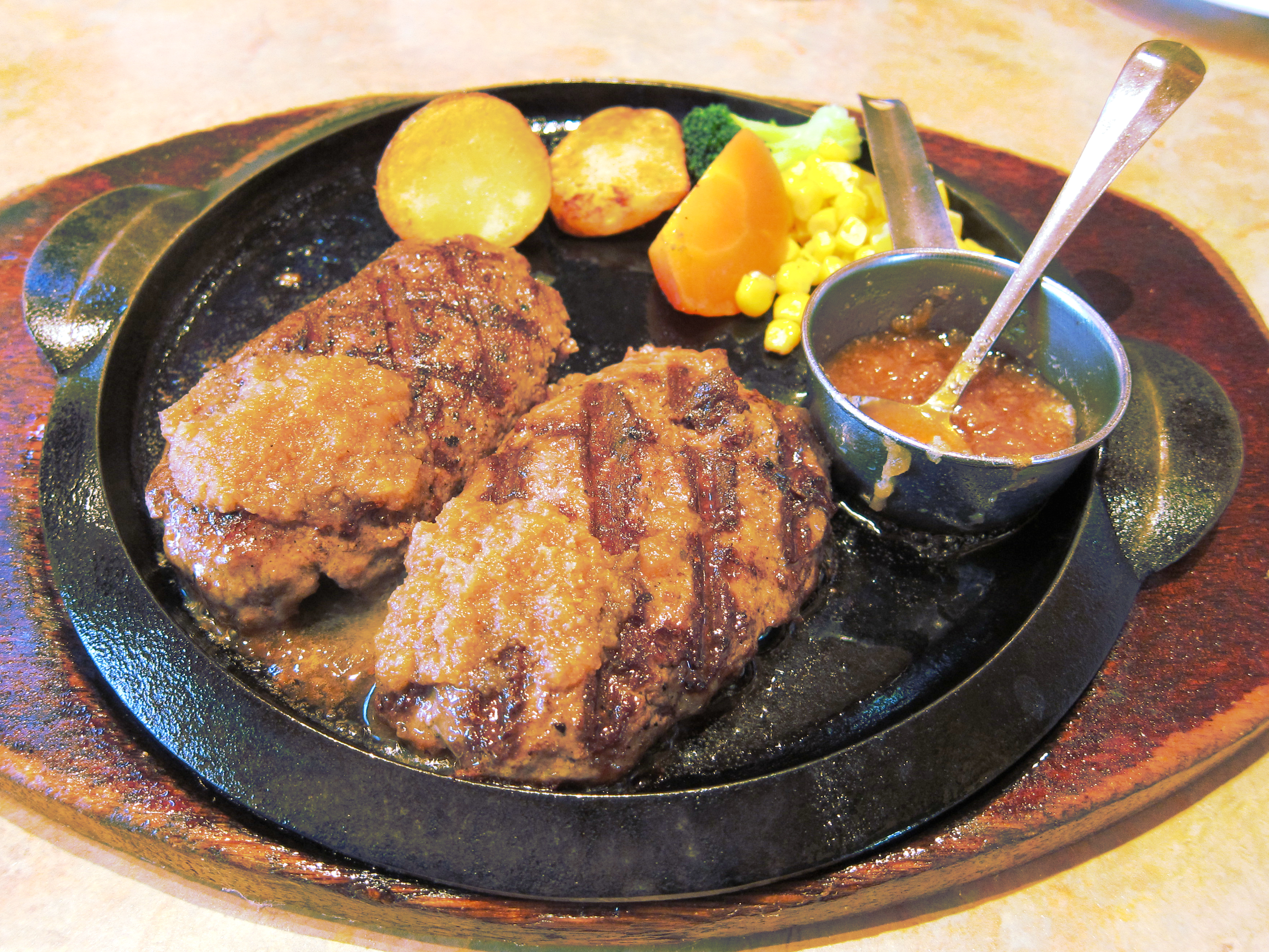 FlyingGarden BakudanHamburg BakudanKing JapaneseStyleSauce